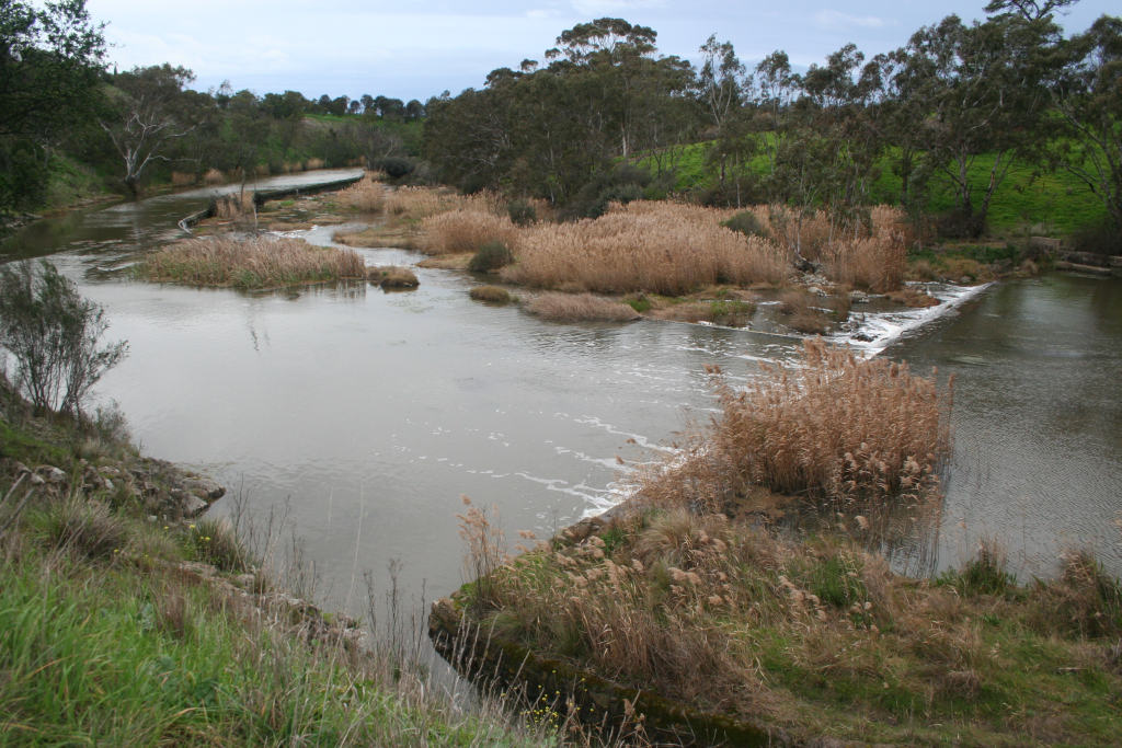 Buckleys Falls - Geelong, Victoria, Australia